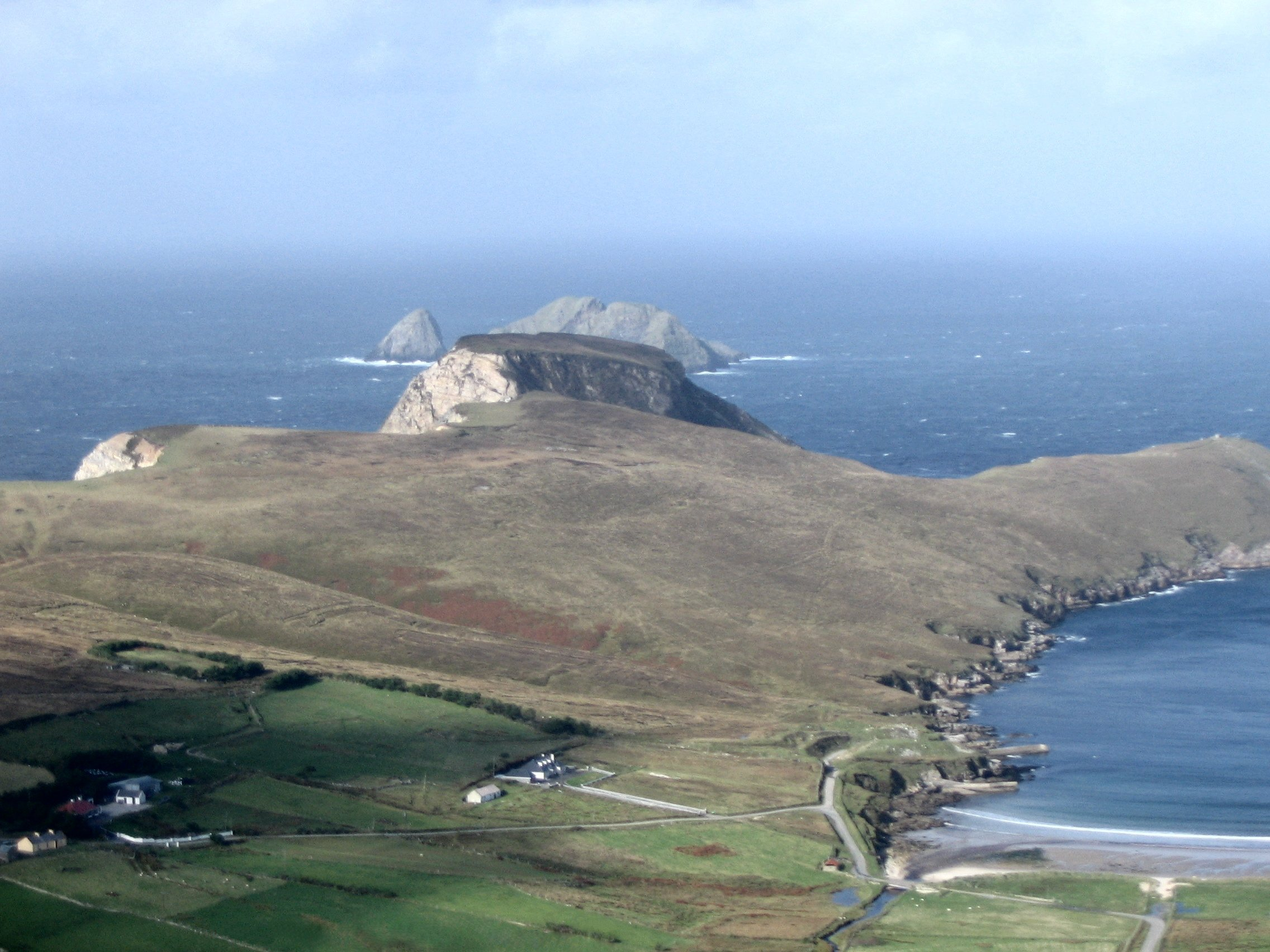 Cliffs of the North Mayo coast, Kilcommon parish Erris